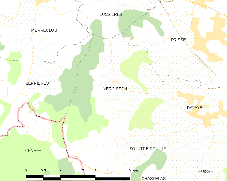 Map of French municipality